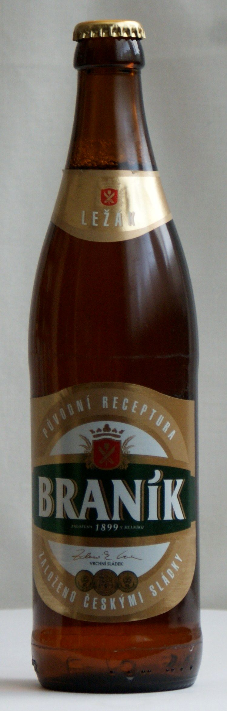 A bottle of Branik lager